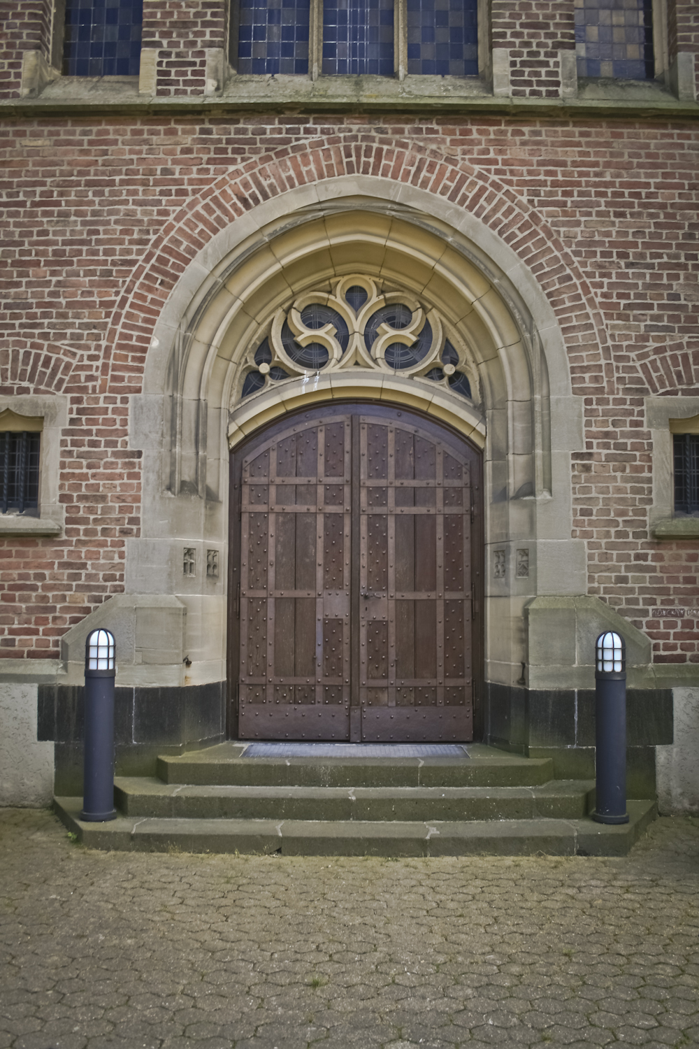 St. Martinus Borschemich